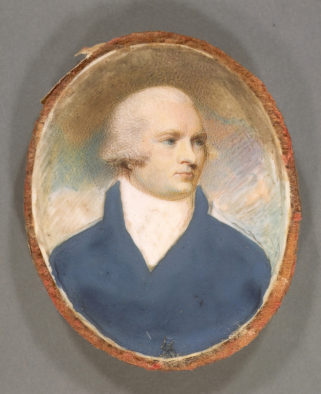 Random portrait of the Admiral Sir Thomas Frederick, the velvet covered mount is very light damaged. The original frame exists separately.